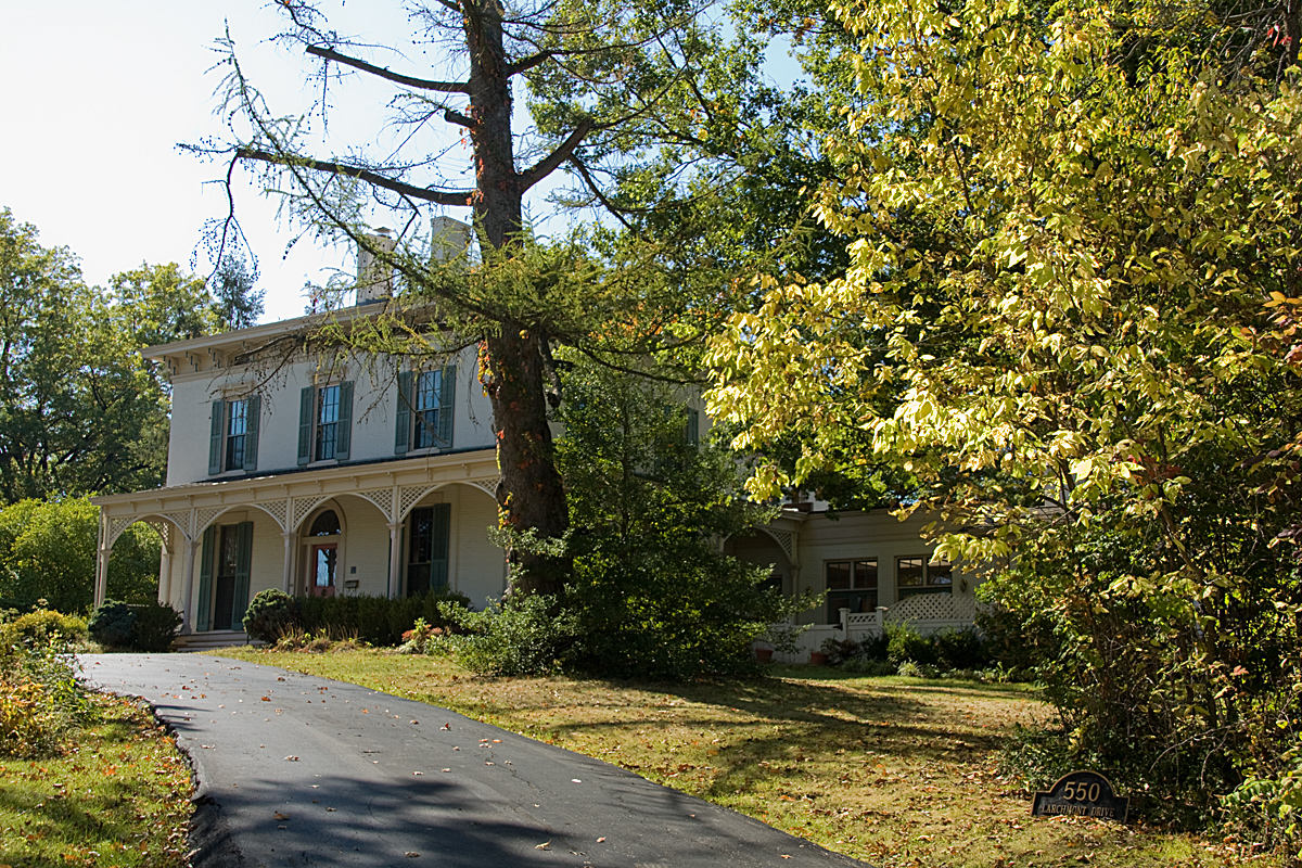 John Tangeman house in Wyoming, OH. Photo by Greg Hume